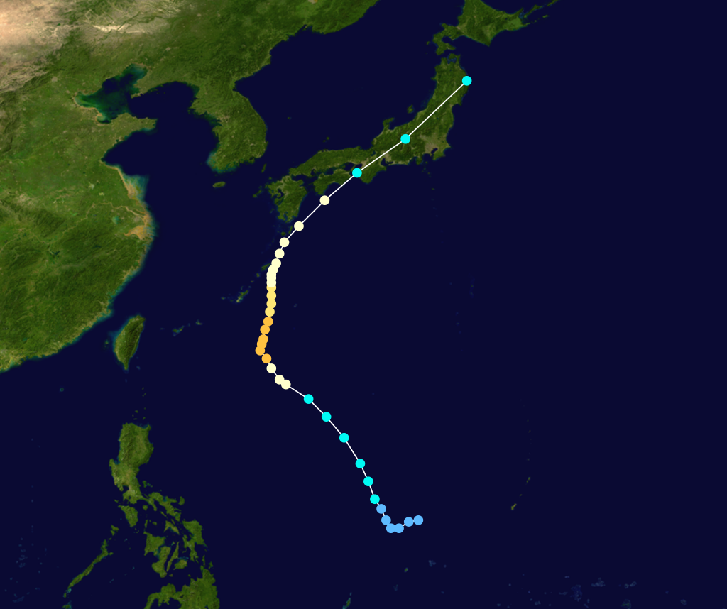 Typhoon Owen 1979 track. Uses the color scheme from the Saffir-Simpson Hurricane Scale.